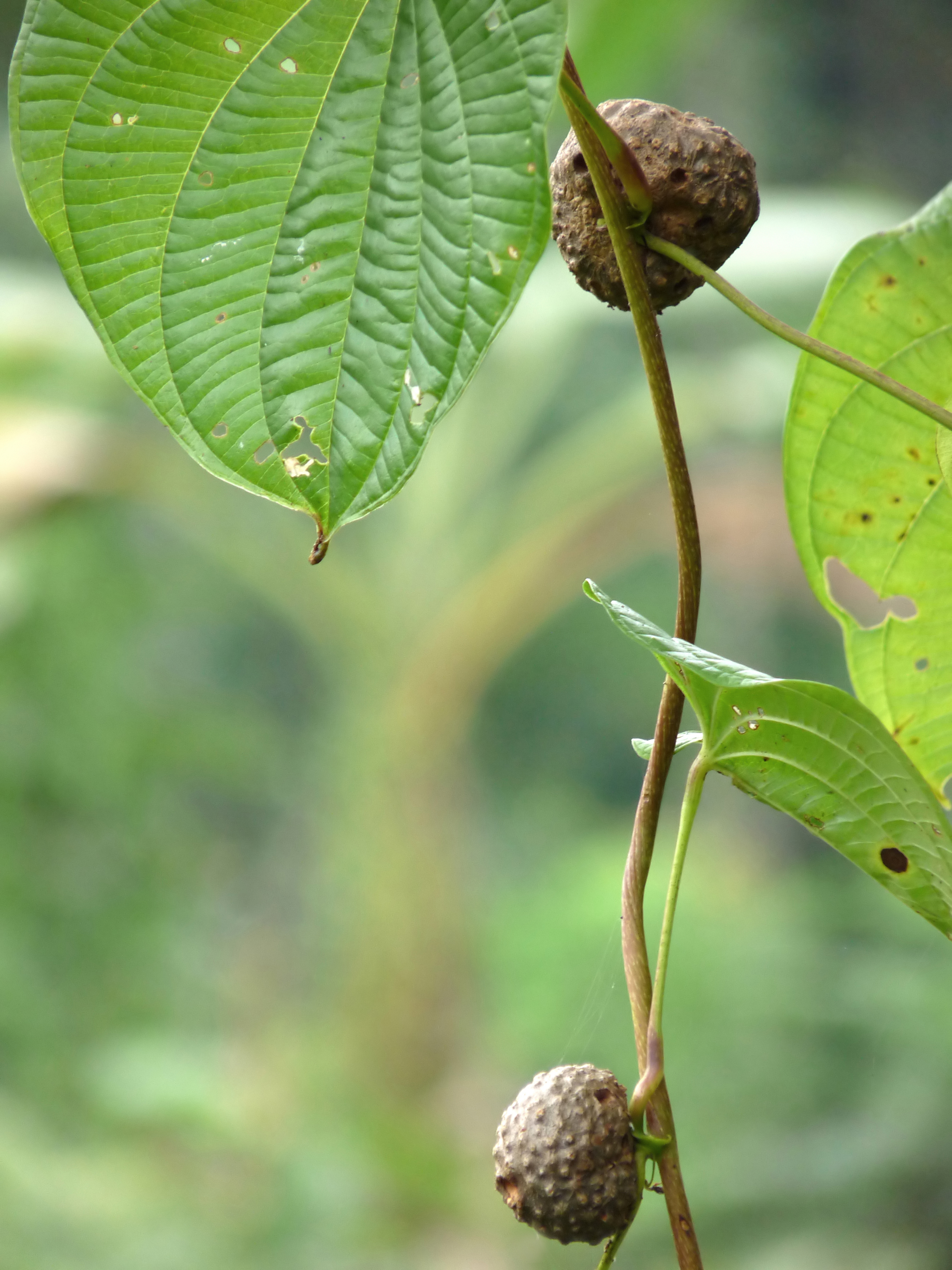 Dioscorea bulbifera, Air potato, Wild yam, is a true yam species in the Dioscoreaceae, or true yam family. It is native to Africa and Asia. It is an invasive species in many tropical areas, including Florida in the United States. It is a perennial vine with broad leaves and two types of storage organs. The plant forms bulbils in the leaf axils of the twining stems, and tubers beneath the ground. These tubers are like small, oblong potatoes. Some varieties are edible and cultivated as a food crop, especially in West Africa.